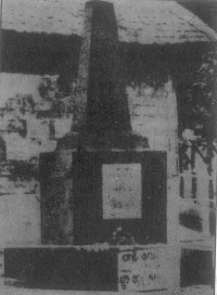 The first Shaheed Minar, built to commemorate the Language Movement, on February 22, 1952. It was demolished by the Pakistani police and the Pakistan Army on February 26, 1952.